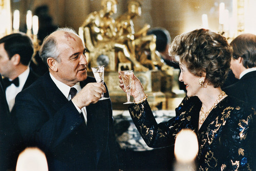 Soviet General Secretary Mikhail Gorbachev toasts with First Lady Nancy Reagan.